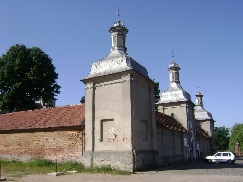 Bernardin Monastery in Skępe